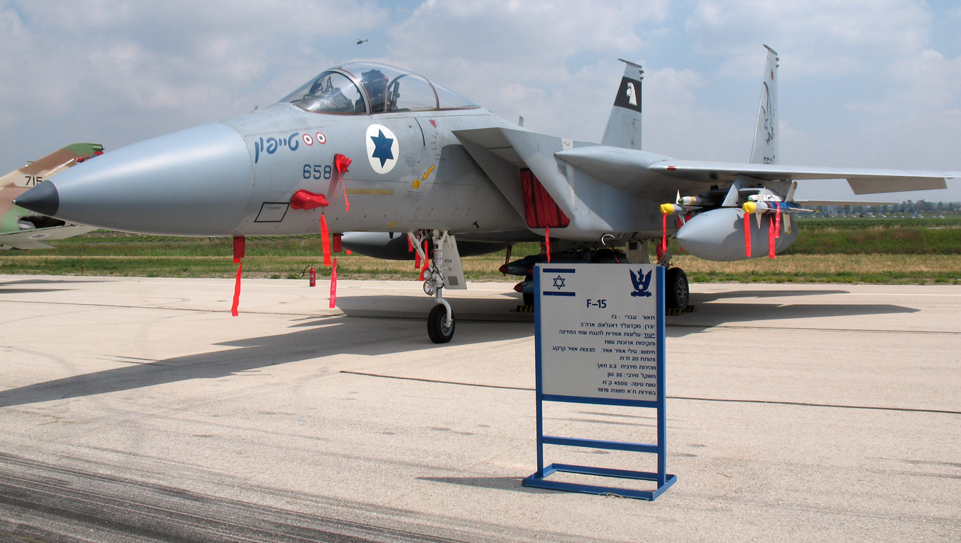 F-15A at Tel Nof